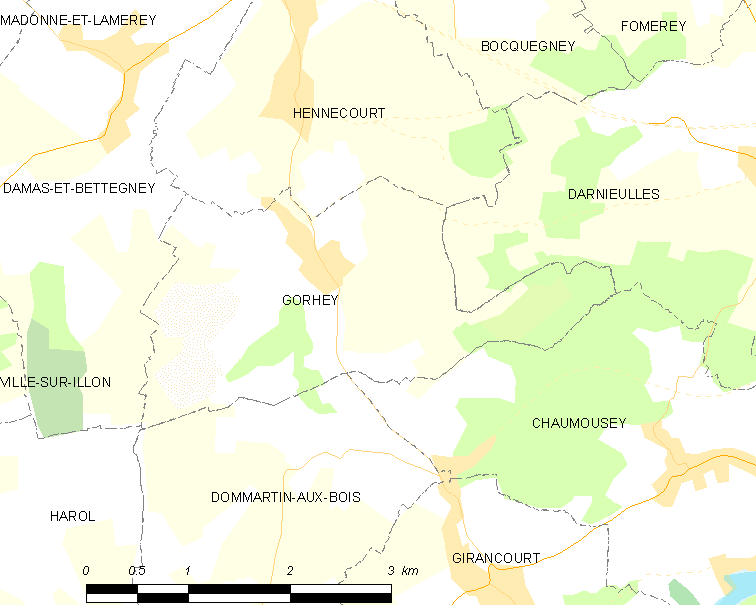 Map of French municipality Gorhey